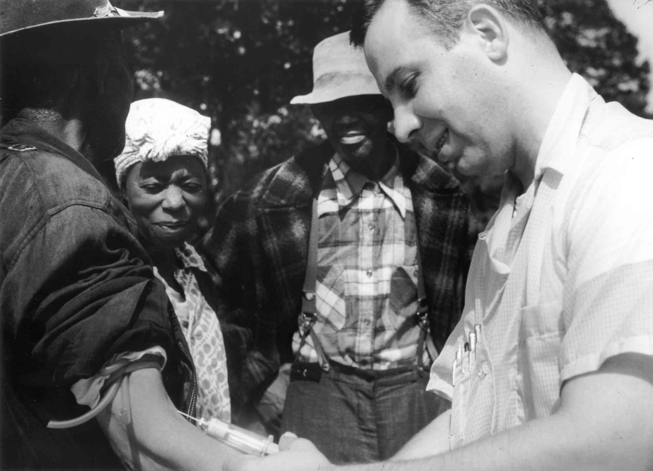 Doctor drawing blood from a patient as part of the Tuskegee Syphilis Study